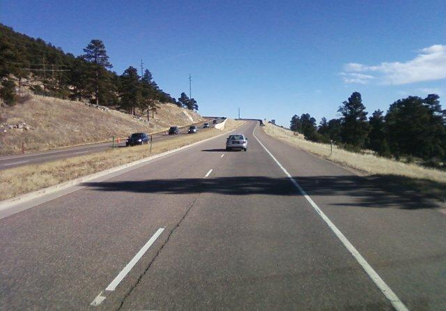 Evergreen Parkway westbound (northbound) north of Bergan Park, Colorado.